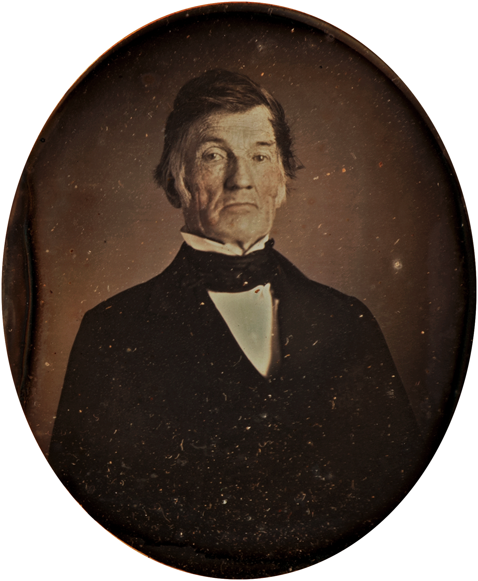 Sixth plate daguerreotype of Eliphalet Remington (October 28, 1793 – August 12, 1861)